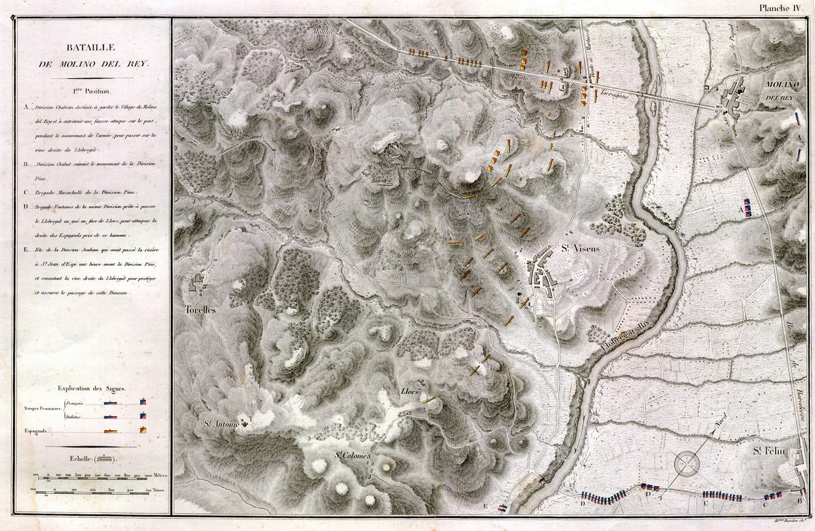 Map showing the positions before the battle of Molins de Rei, at December 21, 1808, during the Spanish War of Independence.